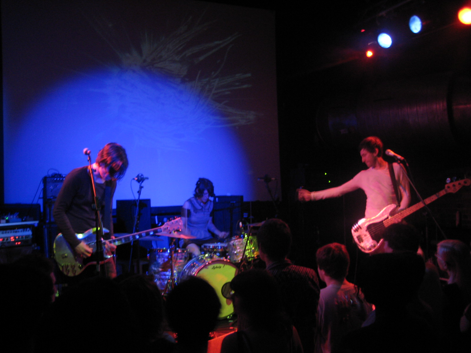 @ Cargo. Amazing. The drummer needs to hook up with the drummer from the Aliens and breed perfect drummer babies.